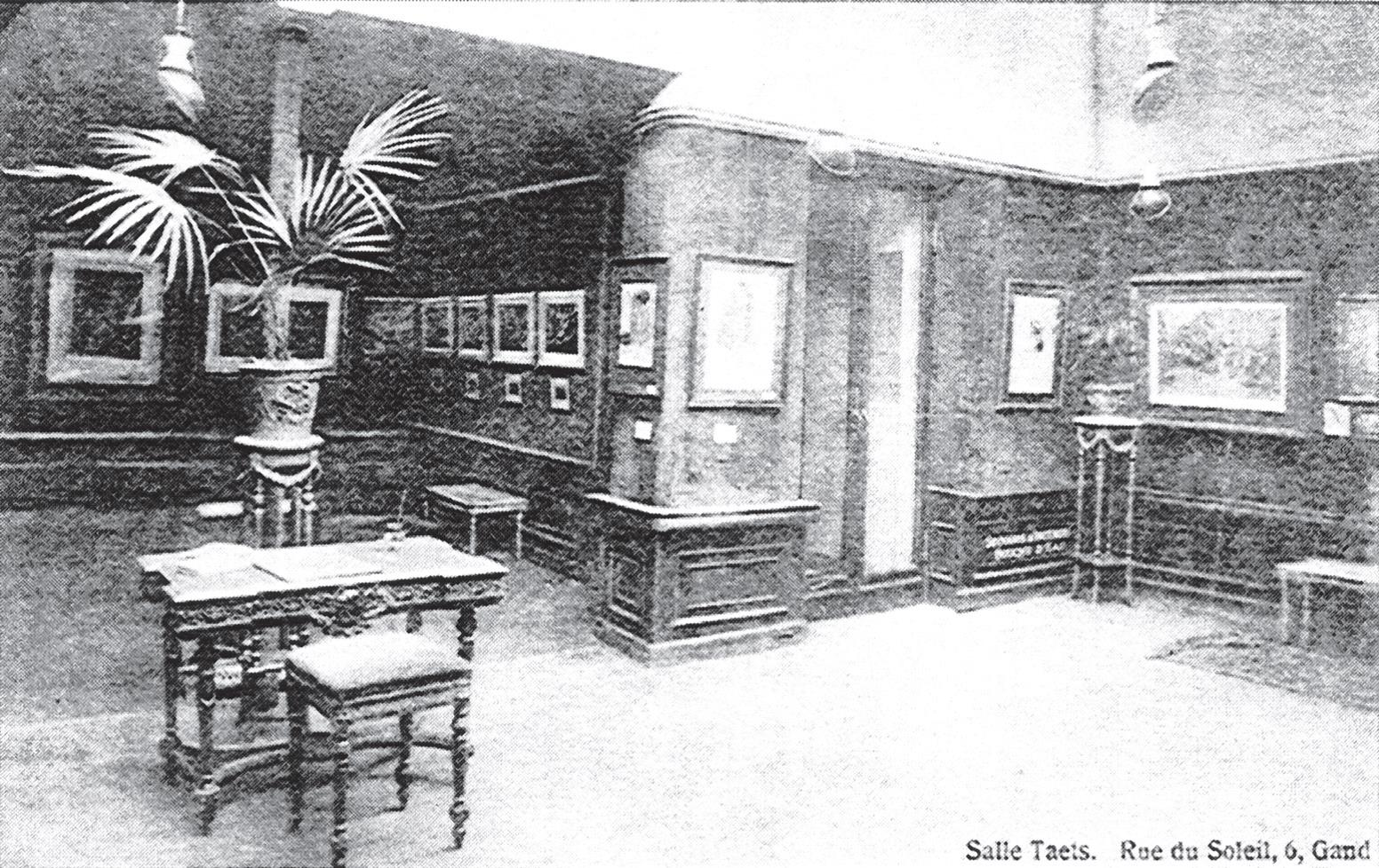 Art galery Taets in Ghent about 1916